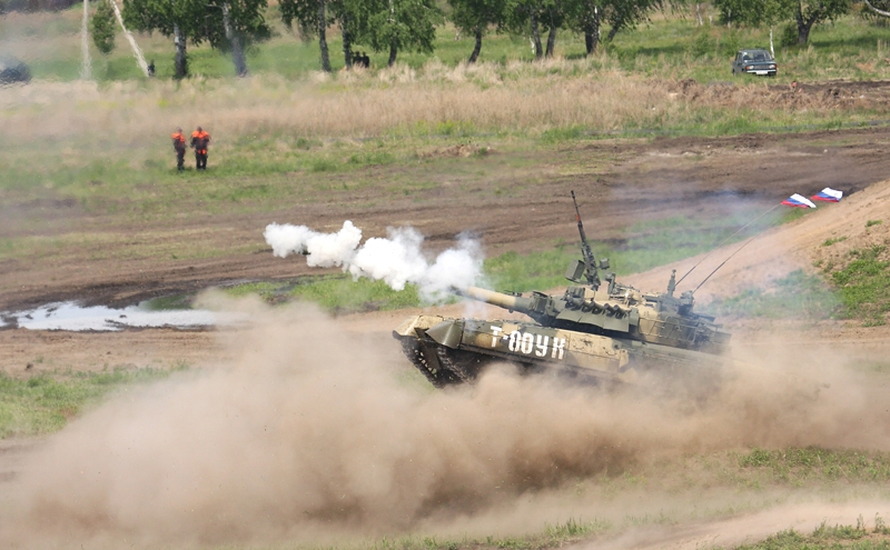 T-80UK tank at VTTV-Omsk in 2009.